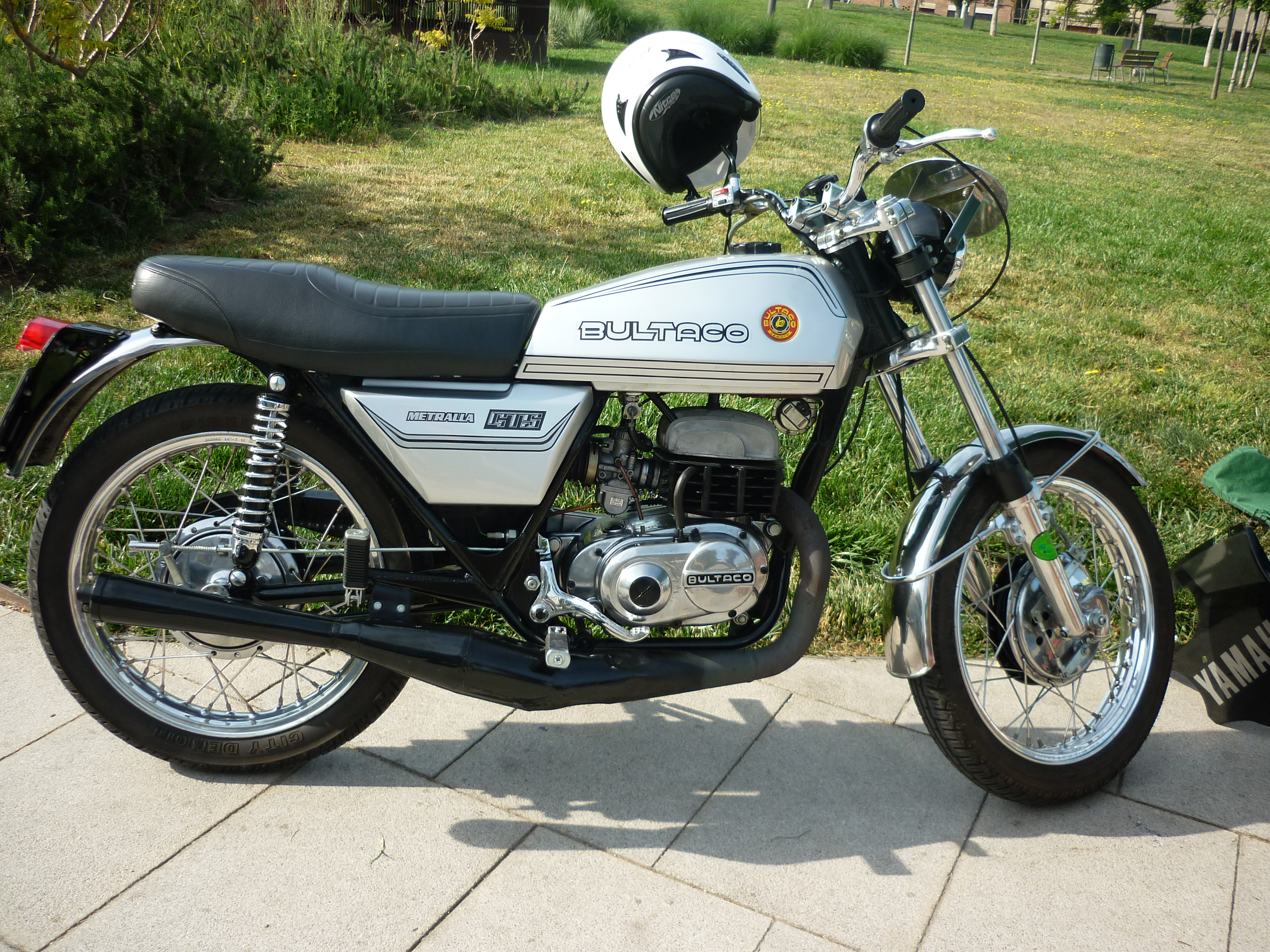 Bultaco Metralla GTS 250cc, 1979